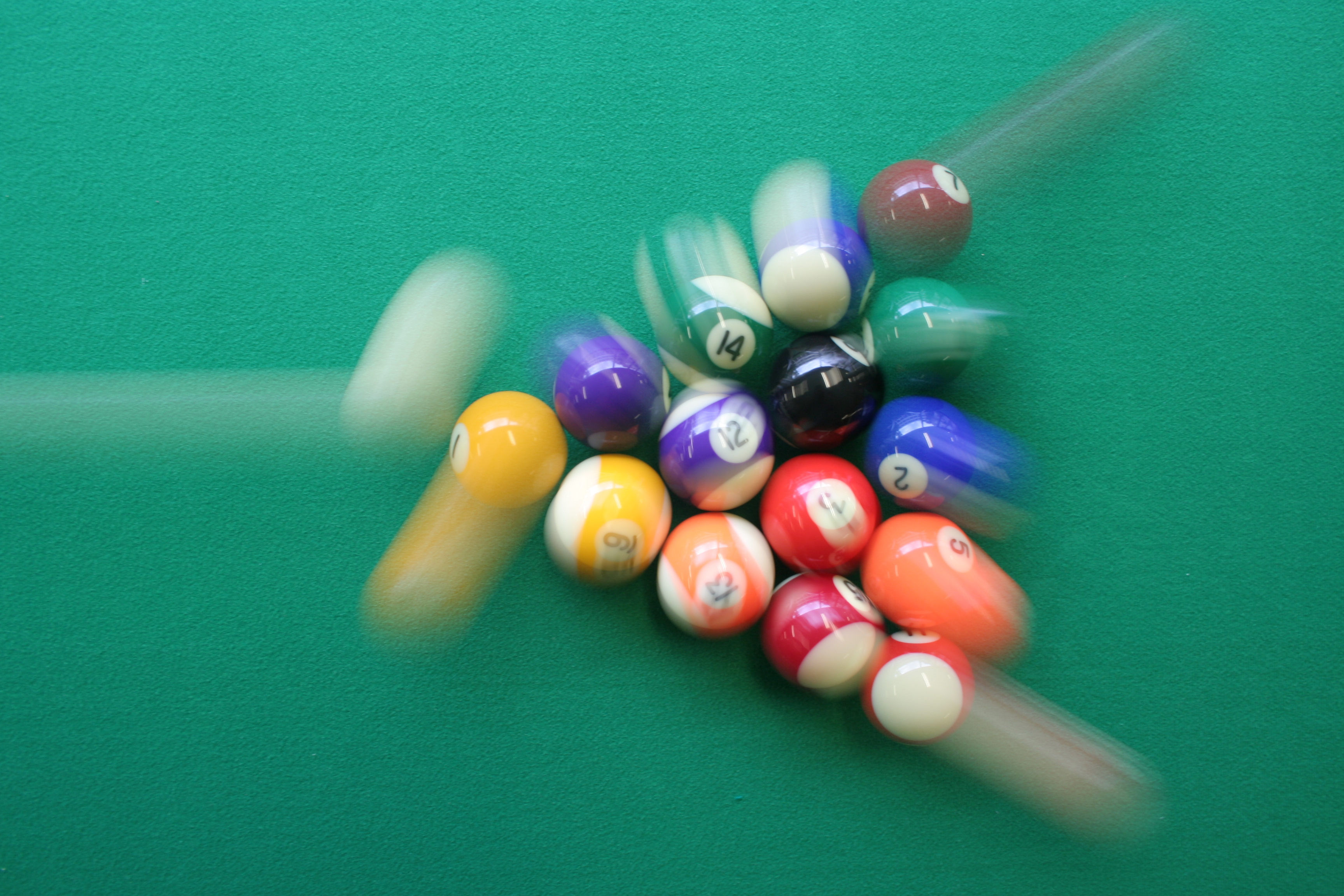 A valid rack for several poolbillardtypes like (for example straight pool although slow breaks are used more often than hard played break ins in this discipline). You can see the ways of the different balls after the break-in. Attention: this is not a valid rack for eight ball.